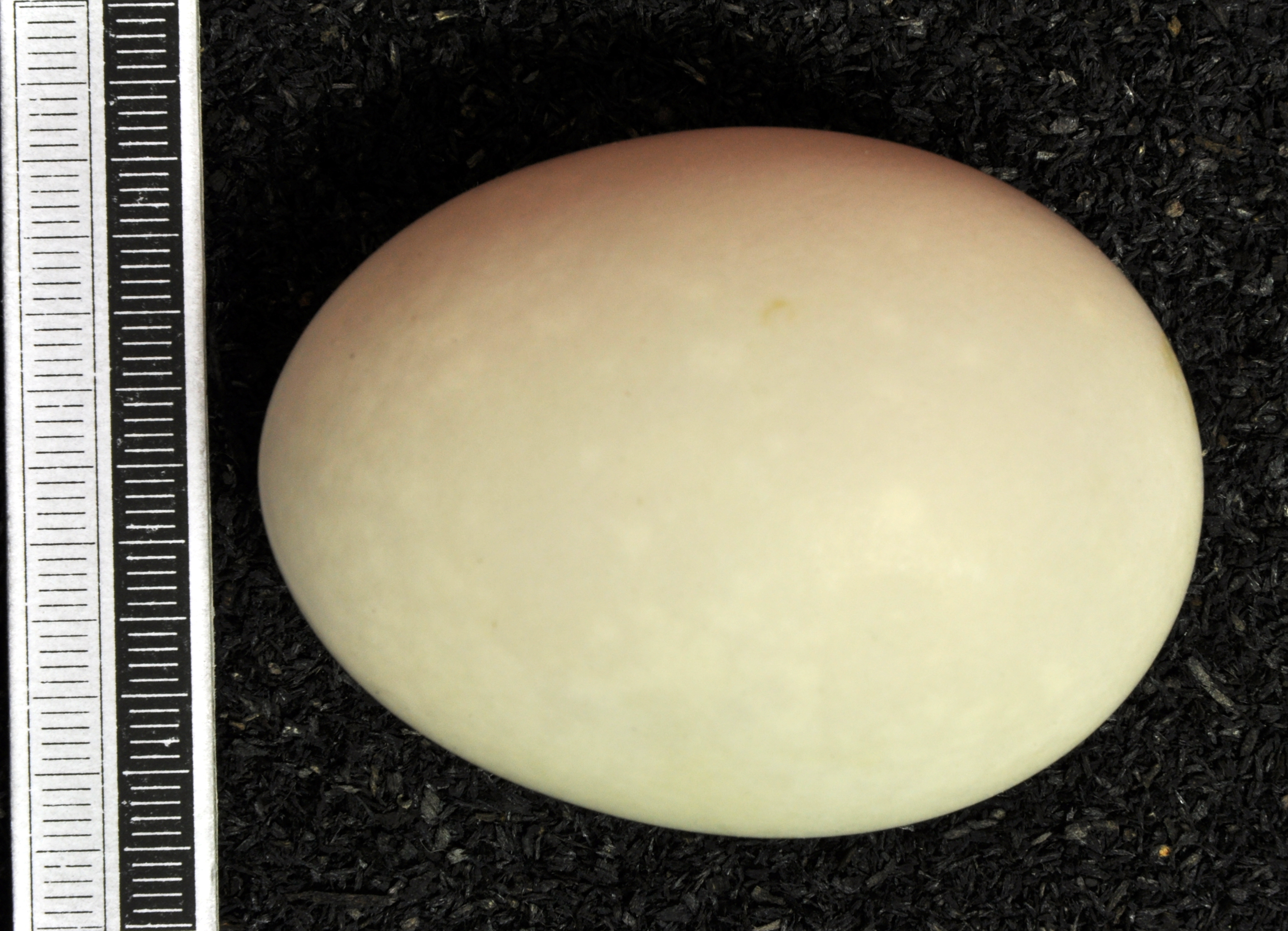 Barrow's goldeneye Bucephala islandica , egg, Coll. Museum Wiesbaden